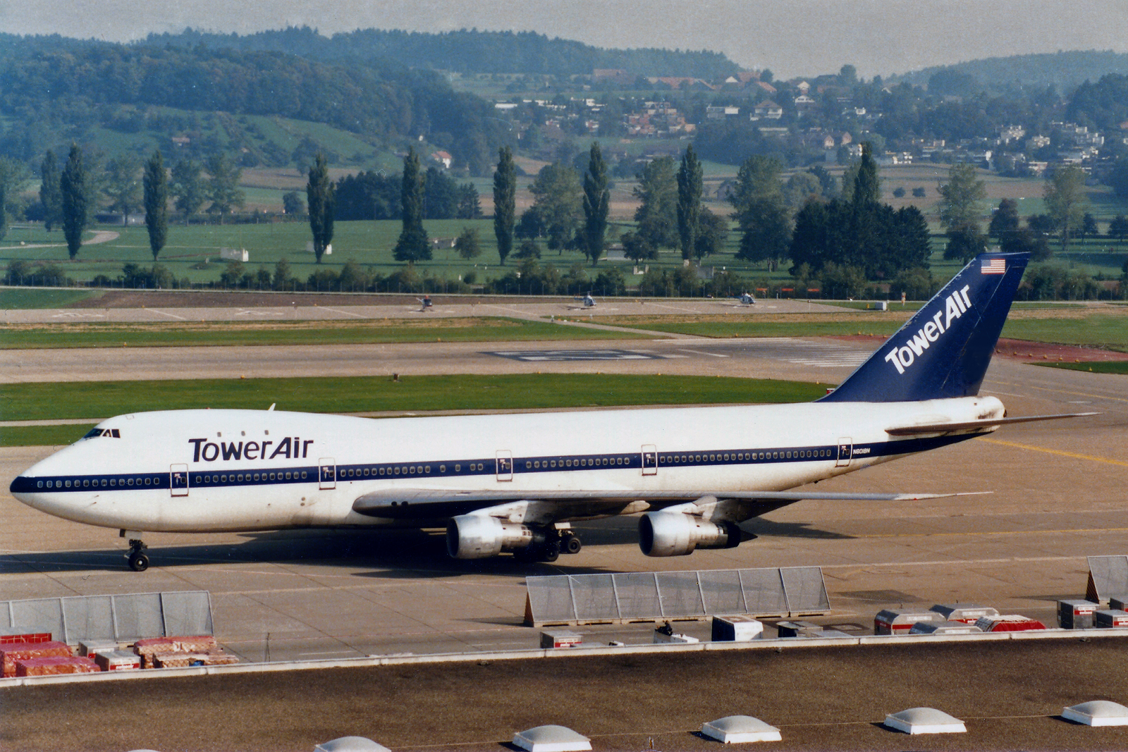 Zürich (- Kloten) (ZRH / LSZH) Switzerland 4.1985 basic Metro colours former "Big Orange" from Braniff